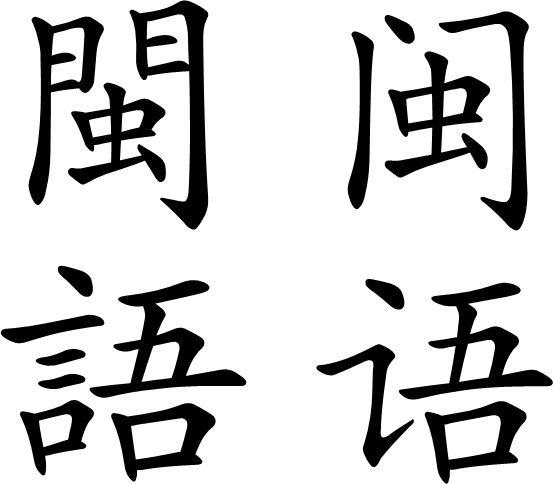 The Chinese characters "閩語/闽语" meaning Min Chinese, made using the 汉鼎简中楷/汉鼎繁中楷 truetype font